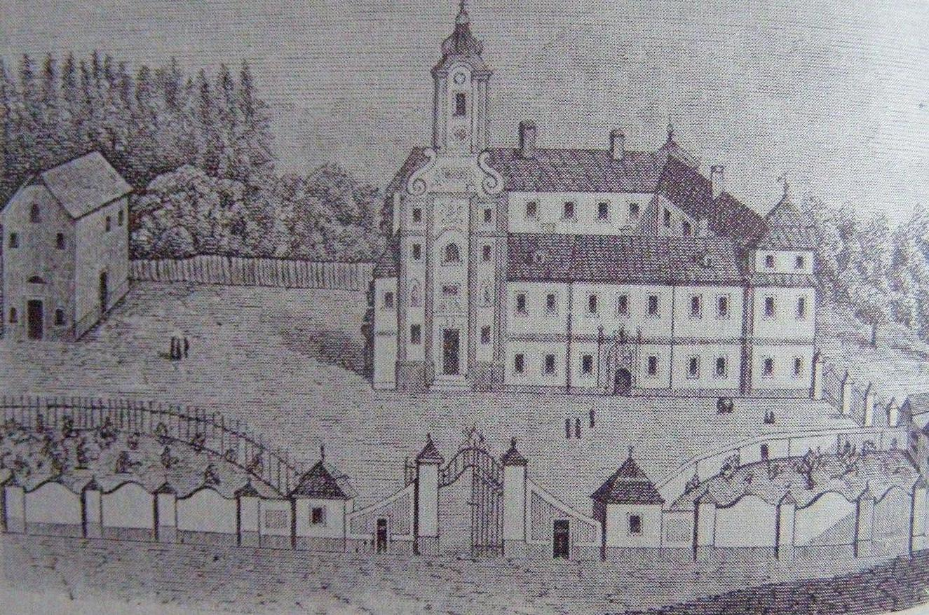 The copper engraving of the Saint Gotthard Abbey